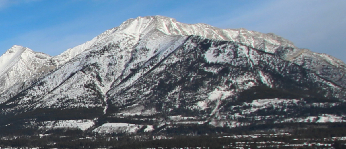 Mount Lady McDonald near Canmore, Alberta